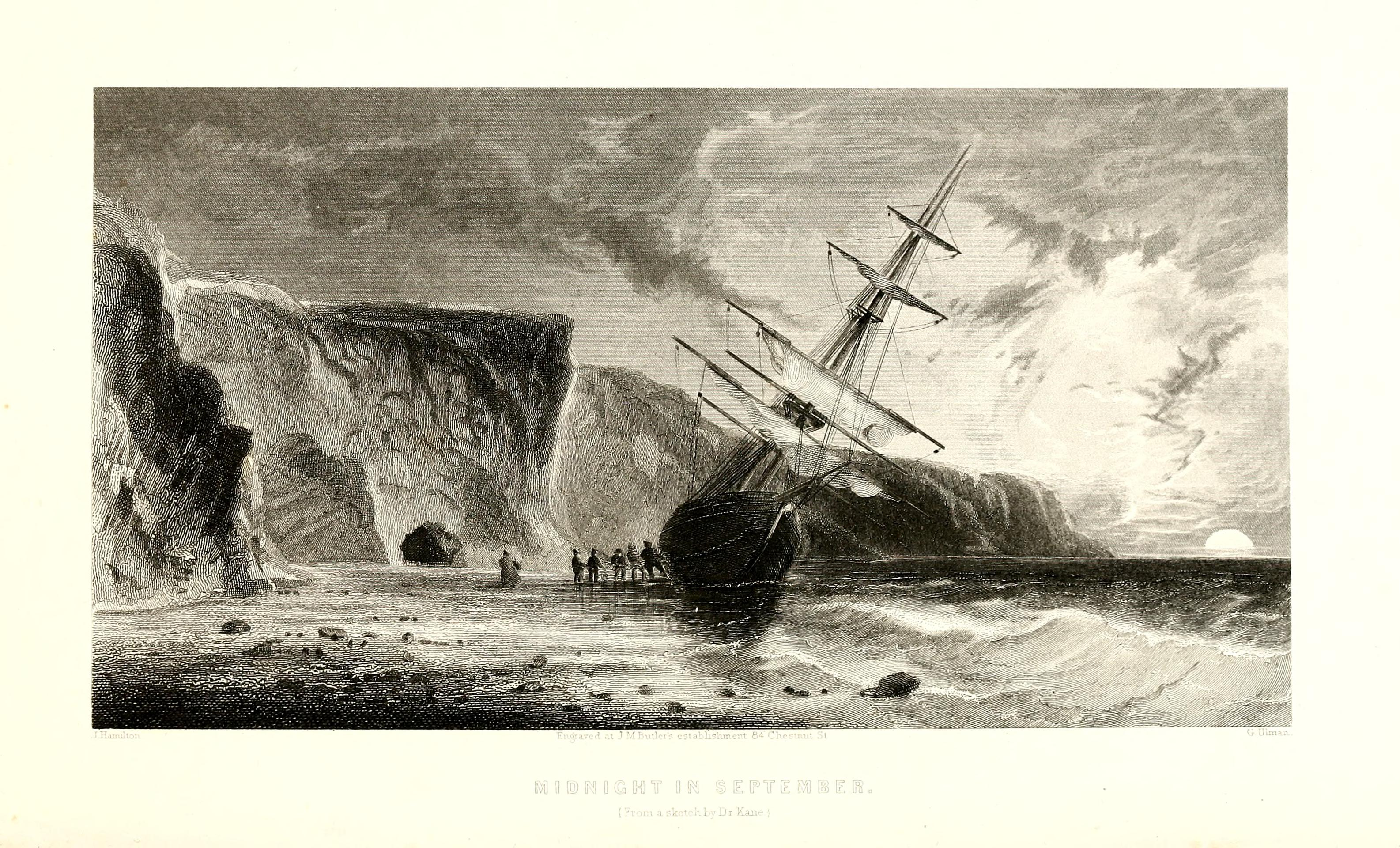 Title: Arctic explorations: the second Grinnell expedition in search of Sir John Franklin, 1853, '54, '55 Year: 1856 (1850s) Authors: Kane, Elisha Kent, 1820-1857 Subjects: Grinnell Expedition 1853-1855) Publisher: Philadelphia, Childs & Peterson (etc., etc.) Text Appearing Before Image: DARKNESS â THE COLD ^THE ice-blink FOX-CHASEâESQUIMAUX HUTSâOCCULTA- TION OF SATURN PORTRAIT OF OLD GRIM. October 28, Friday.âThe moon has reached hergreatest northern declination of about 25Â° 35. She isa glorious object: sweeping around the heavens, at thelowest part of her curve, she is still 14Â° above thehorizon. For eight days she has been making her cir-cuit with nearly unvarying brightness. It is one ofthose sparkling nights that bring back the memory ofsleigh-bells and songs and glad communings of heartsin lands that are far away. Our fires and ventilation-fixtures are so arrangedthat we are able to keep a mean temperature belowof 65Â°, and on deck, under our housing, above thefreezing-point. This is admirable success; for theweather outside is at 25Â° below zero, and there is quitea little breeze blowing. The last remnant of walrus did not leave us untilthe second week of last month, when the temjDeraturehad sunk below zero. Till then they found open HO t W I ^ eel Text Appearing After Image: WALRUS-HOLES. 141 water enough to sport and even sleep in, betweenthe fields of drift, as they opened with the tide; butthey had worked numerous breathing-holes besides, inthe solid ice nearer shore/ Many of these were in-side the capes of Rensselaer Harbor. They had thesame circular, cleanly-finished margin as the seals,but they were in much thicker ice, and the radiating